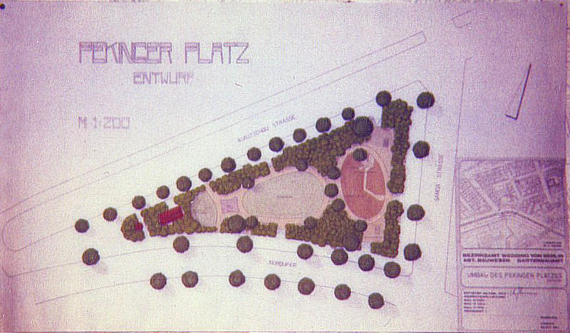 This is a extract of a Polaroid-photo made in 1985. The shown plan was coloured by Michael Hennemann. The original is missing.